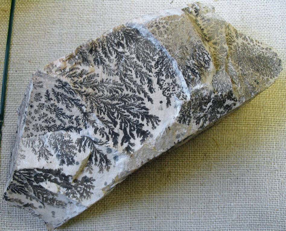 Dendritic pyrolusite formations on felsite, from Elba, Italy. Photograph taken at the Natural History Museum, London.